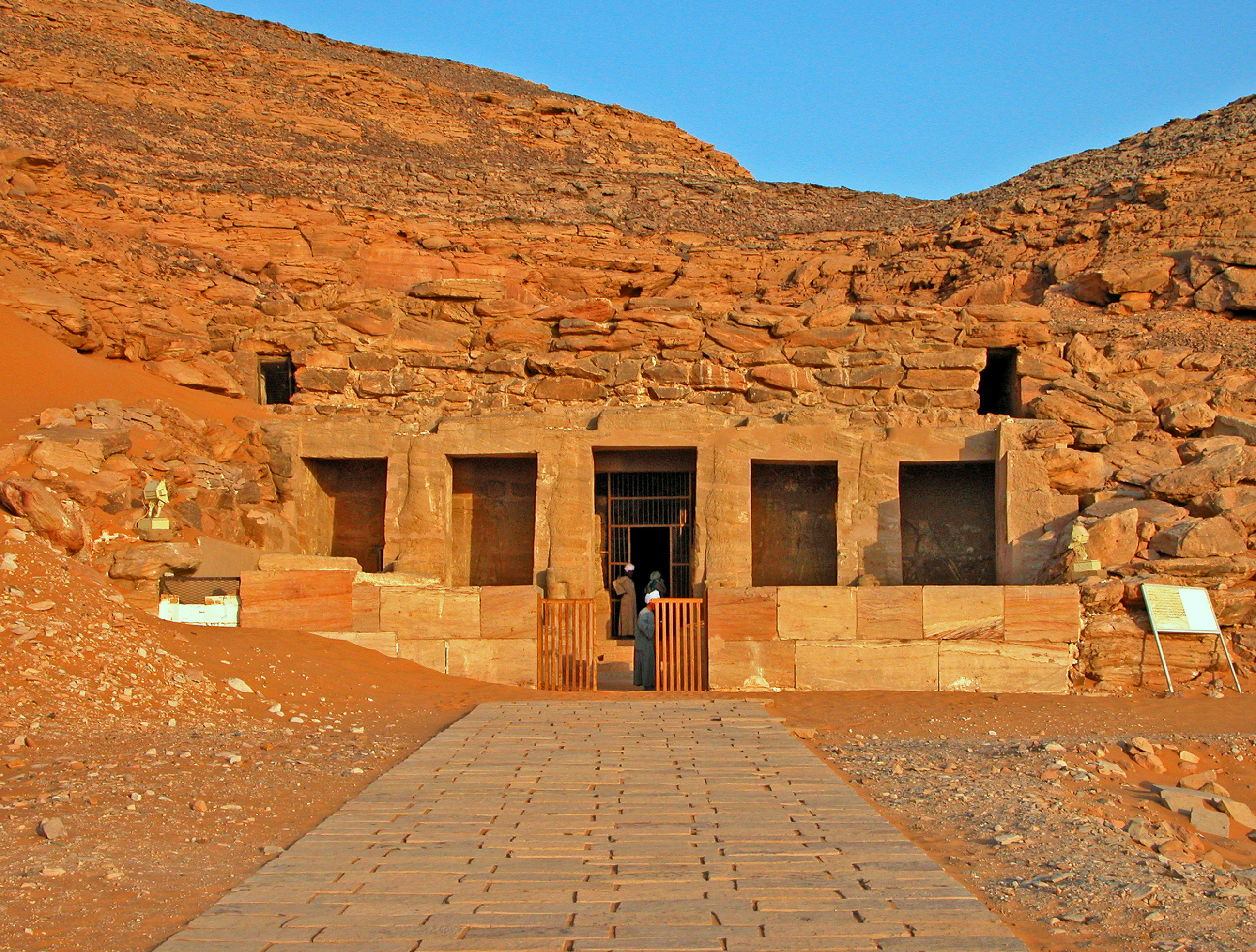 The Temple of Derr is another example of Rameses II's rock hewn temples, built during about the 30th year of his reign to celebrate his Sed festival and dedicated to himself, Amun-Re, Re-Harakhte and Ptah. The ancient Egyptians named it "Temple of Ramses-in-the-House-of-Re". Lake Nasser, Egypt